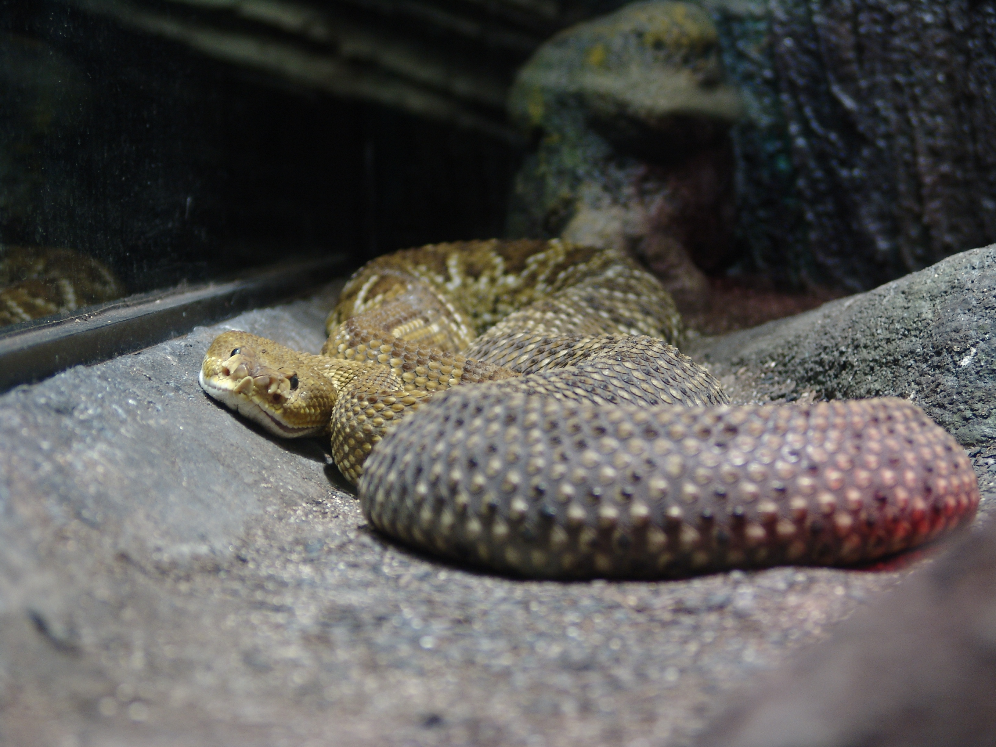 Mexican West Coast Rattlesnake at Wilmington's Serpentarium. I took the picture.